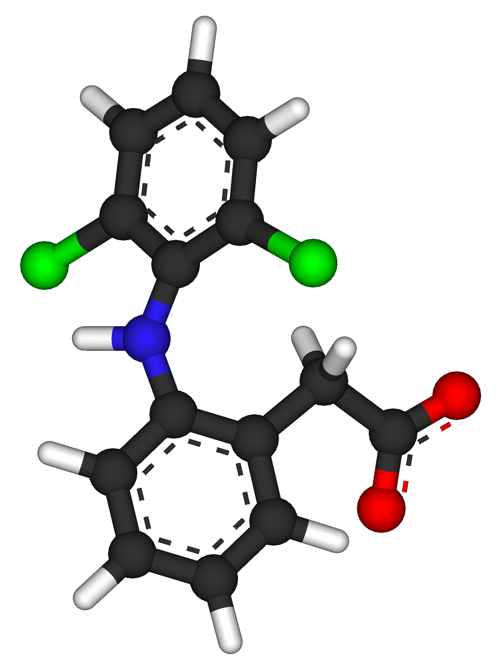 Ball-and-stick model of diclofenac. Created using Accelrys DS Visualizer Pro 1.7 and GIMP. Optimized with OptiPNG.